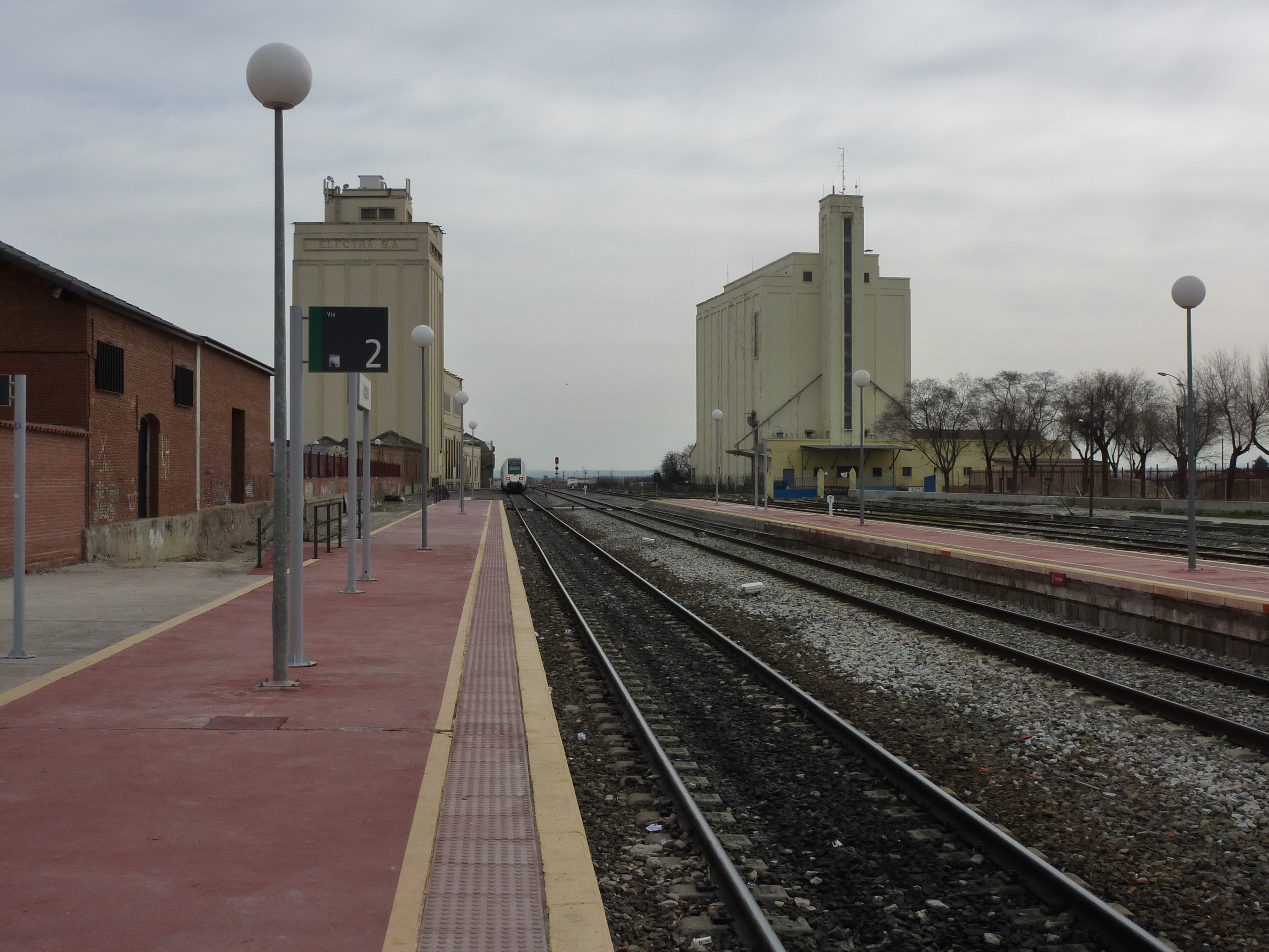 Railway station of Torrijos, Toledo, Spain.